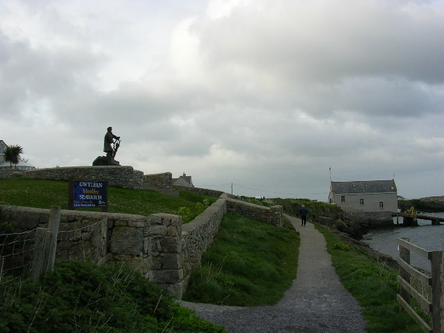 Moelfre Seawatch Centre and Lifeboat Station. Taken from SH514864. The Seawatch Centre contains a lifeboat exhibit and information about the area. The statue is that of Richard Evans a former coxswain of the Moelfre lifeboat, who was awarded the RNLI Gold Medal twice.